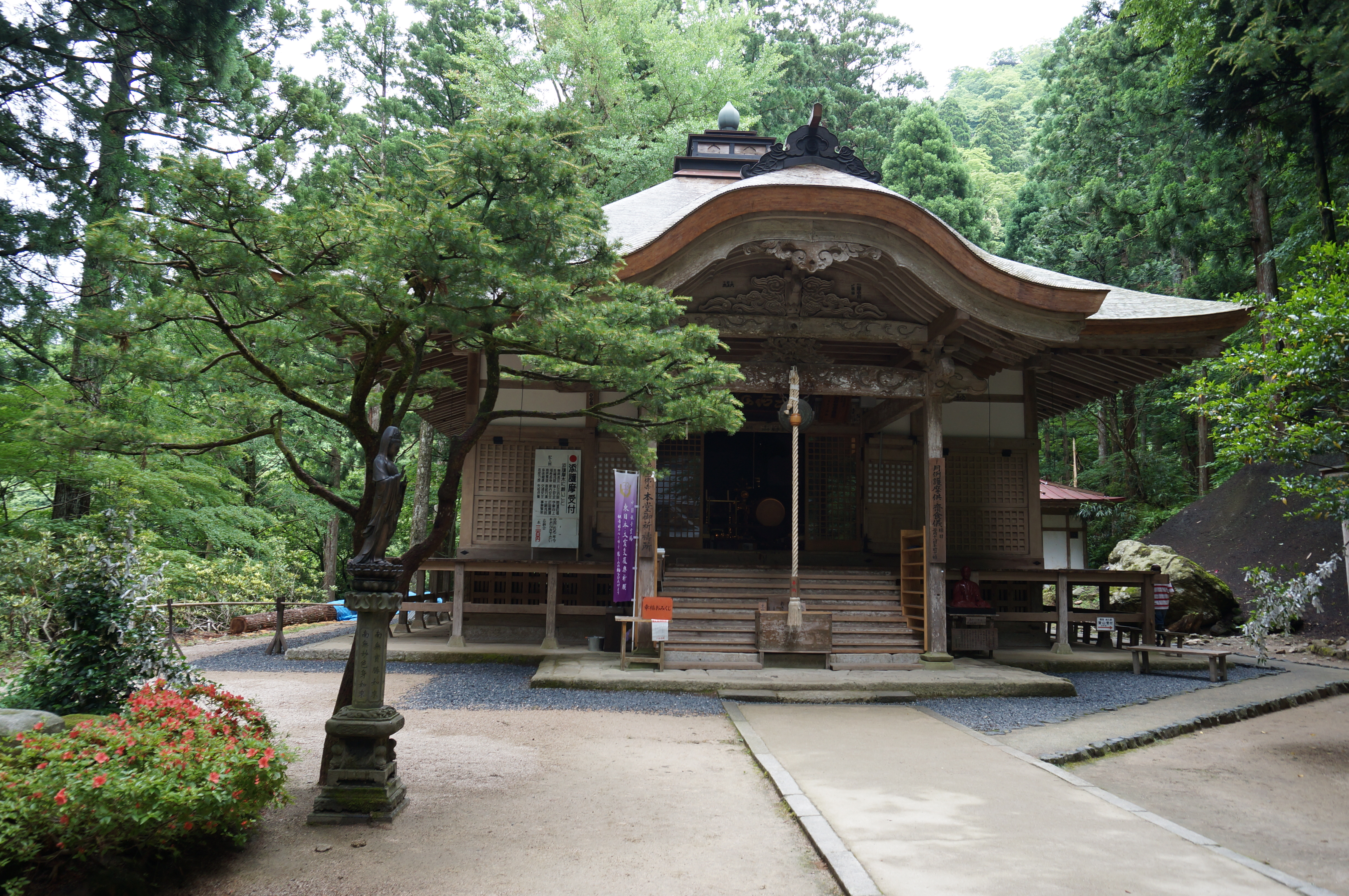 Main hall, Sanbutsu-ji